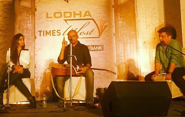 Shreya Ghoshal reading & singing Shantanu Moitra's memoirs at Times Litfest event along with Swanand Kirkire in Mehboob Studios, Bandra, Mumbai.